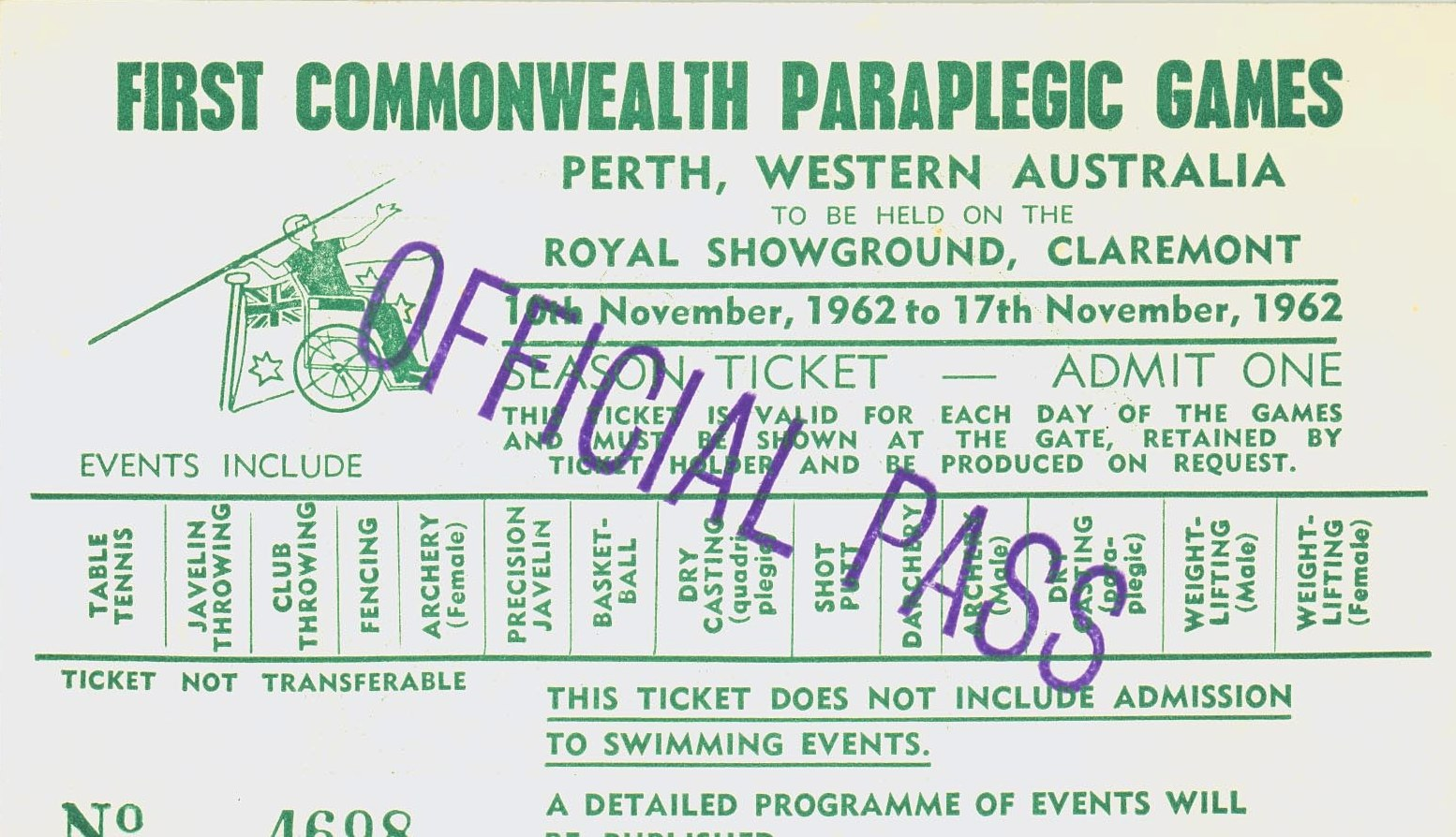 Commomwealth Paraplegic Games 1962 Perth Official Pass